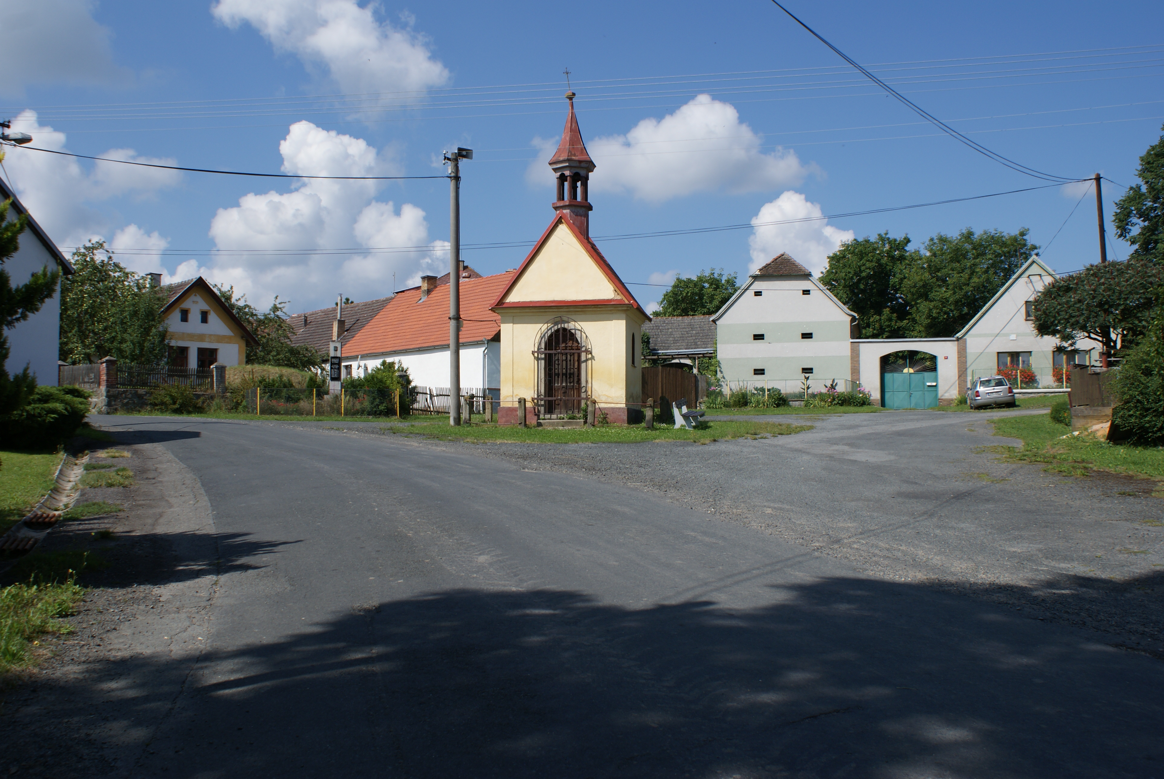 Nová Ves u Nepomuka, a village in Plzeň-South District, Czech Rep., a chapel.